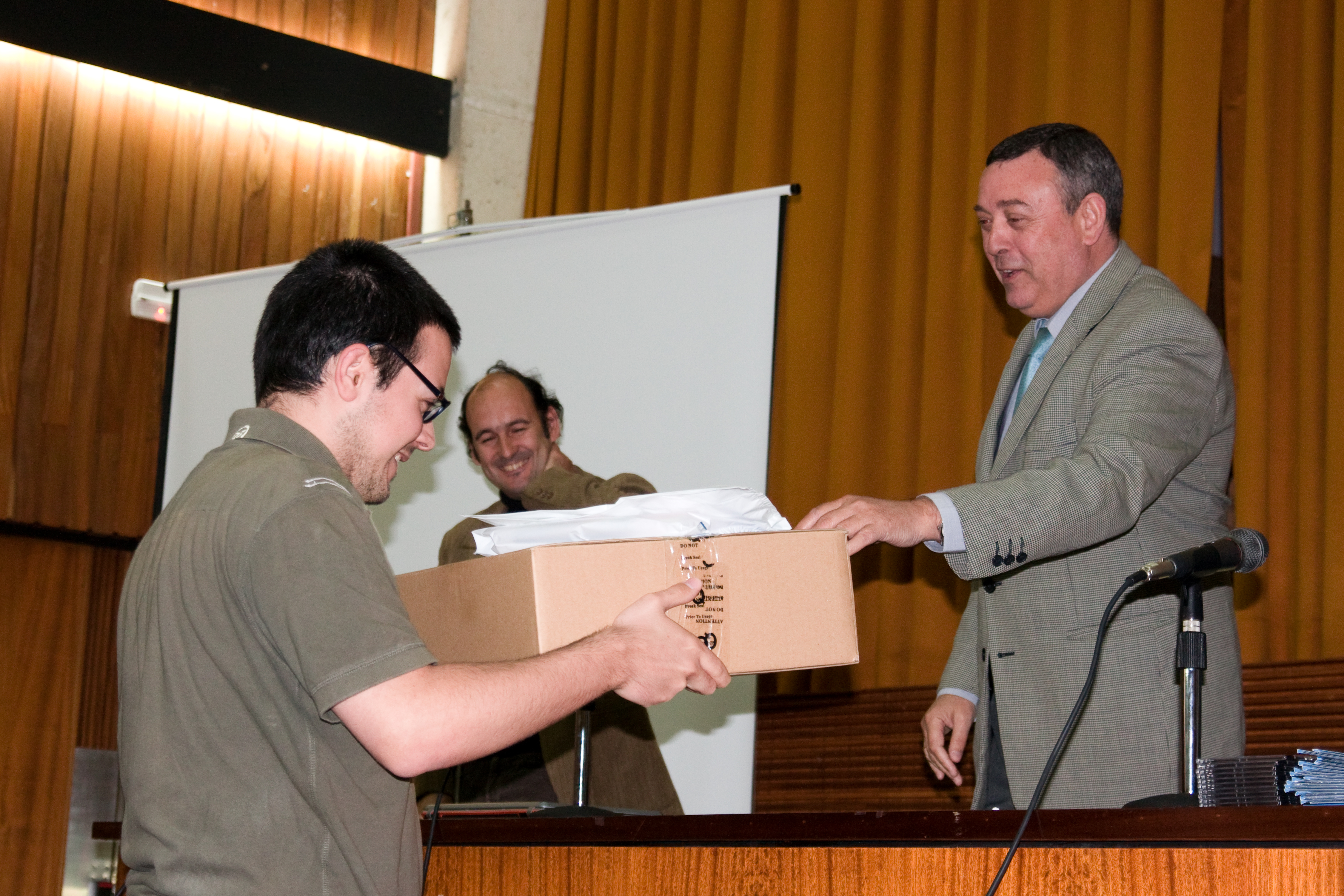 Award ceremony of the II University Open Source Software Contest (CUSL II)